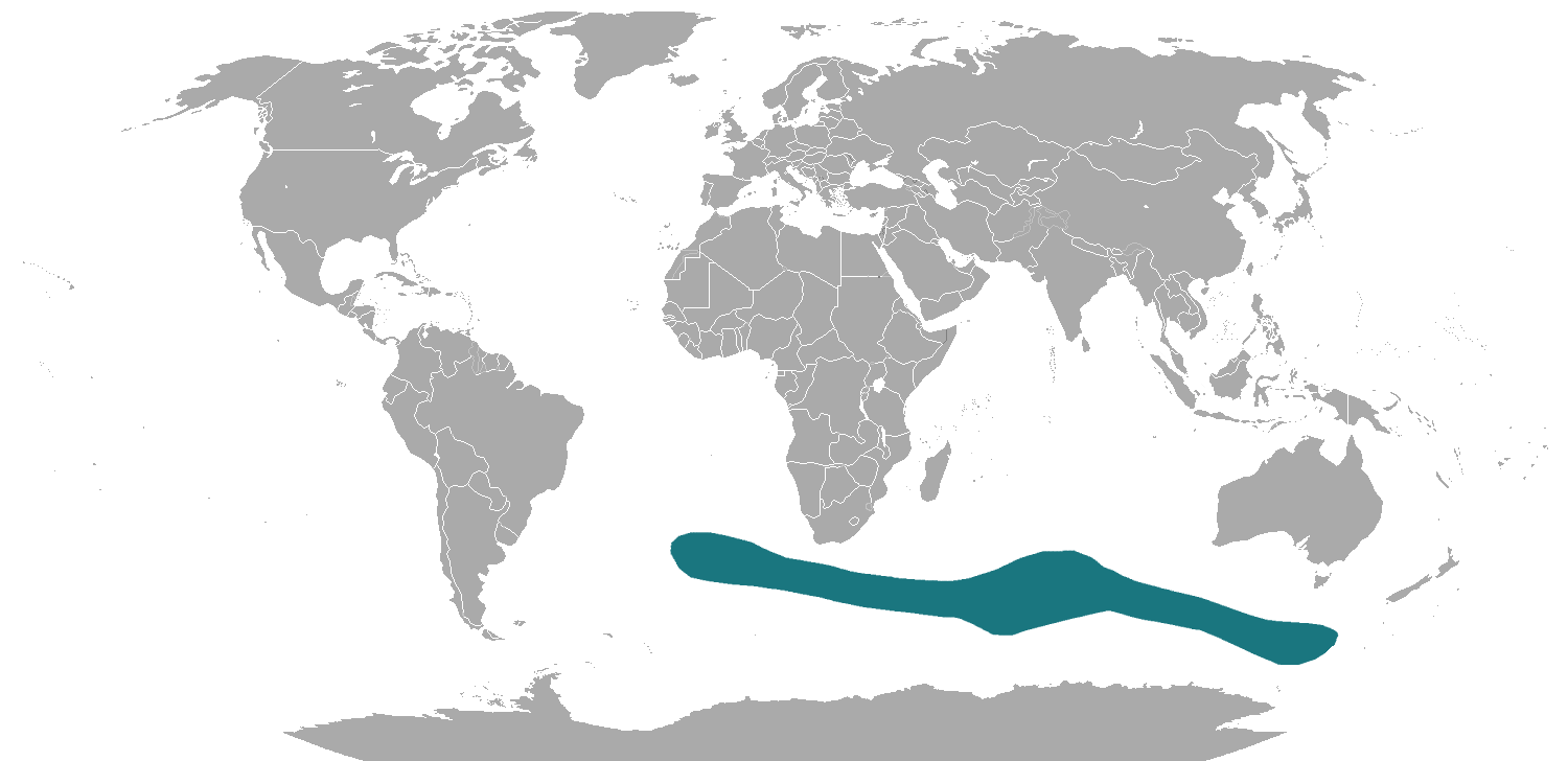 Subantarctic Fur Seal (Arctocephalus tropicalis) range